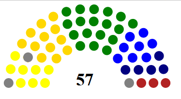 Composicion del Congreso periodo 2014-2018